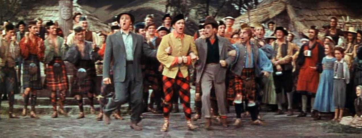 Van Johnson & Gene Kelly (number I'll Go Home with Bonnie Jean) in Brigadoon - trailer (cropped screenshot)